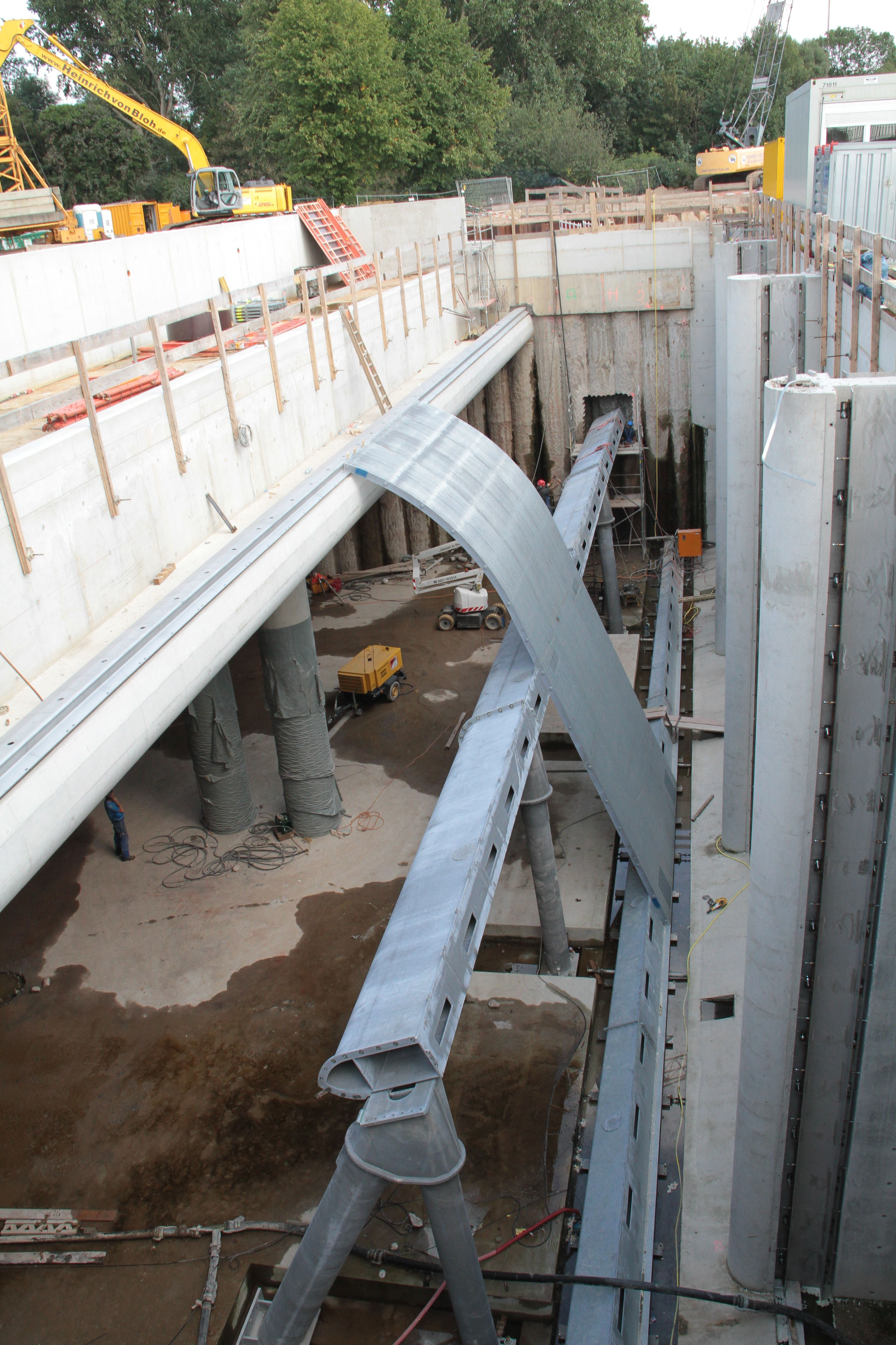 View on the inlet of the bypass system at the hydroelectric power plant on the river Weser in Bremen, Germany, which should enable a safe degression for the fishes.